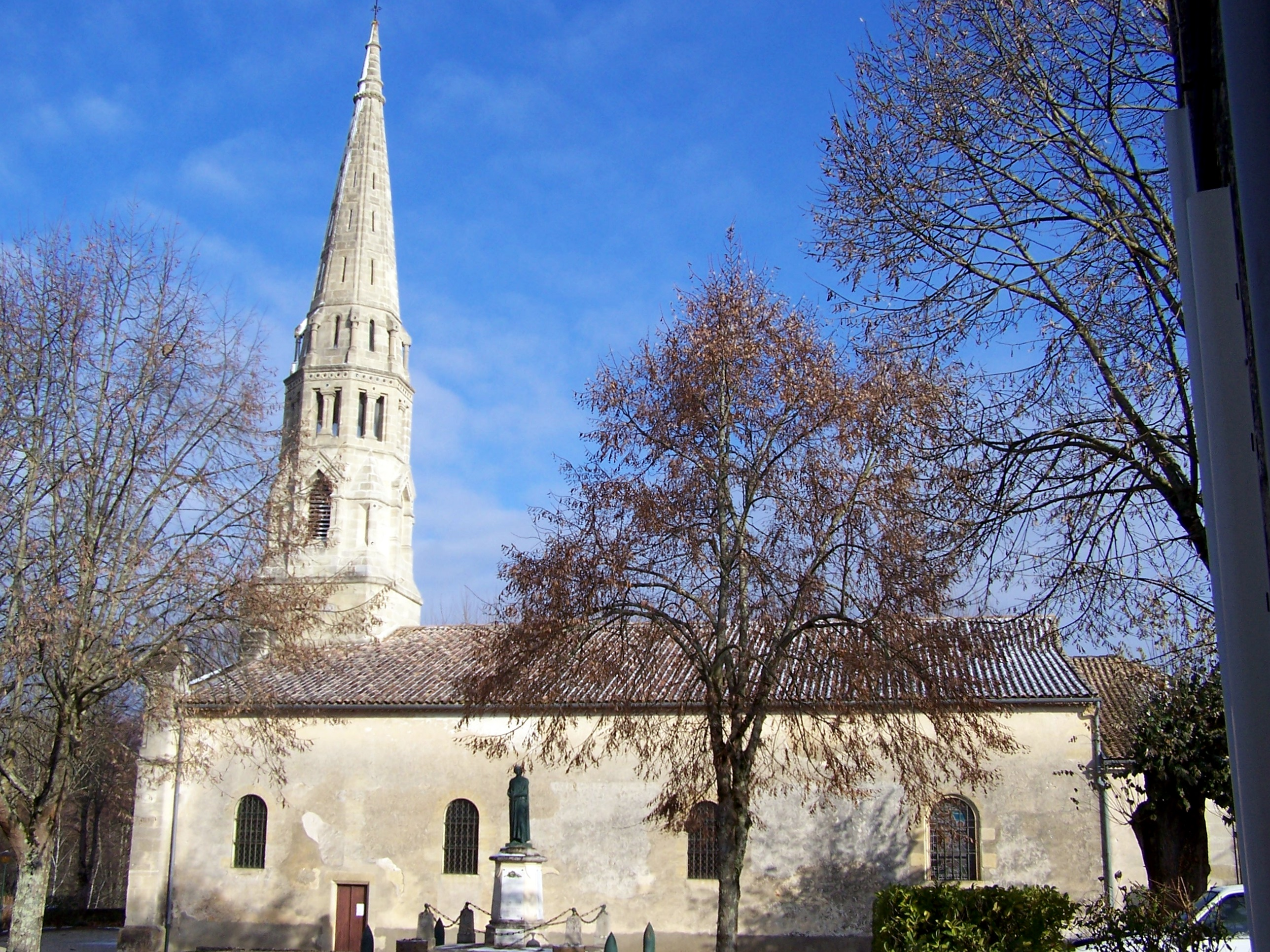 Church of Sauternes (Gironde, France)